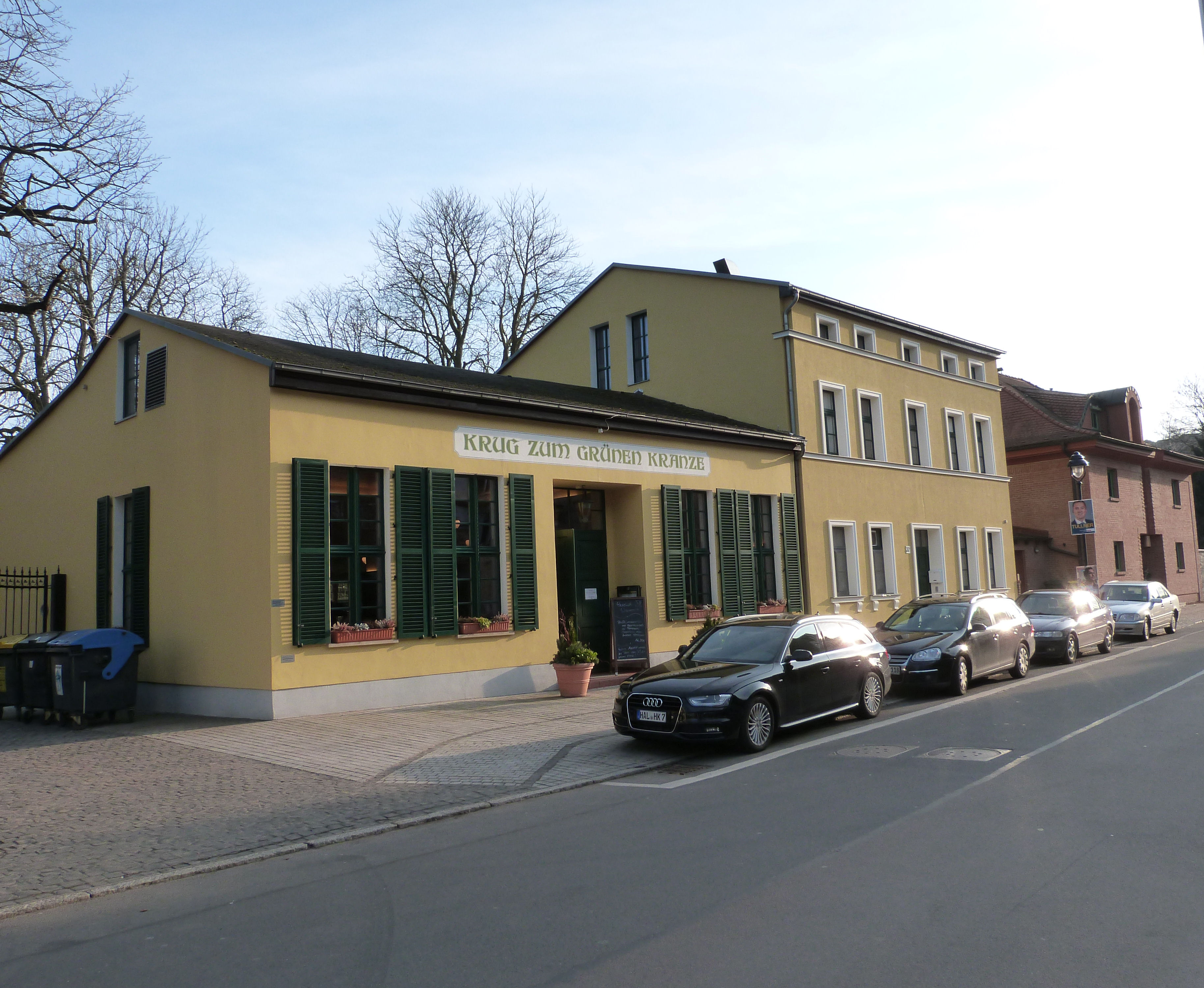 Restaurant Krug zum Grünen Kranze, Talstrasse No. 37, Halle (Saale)